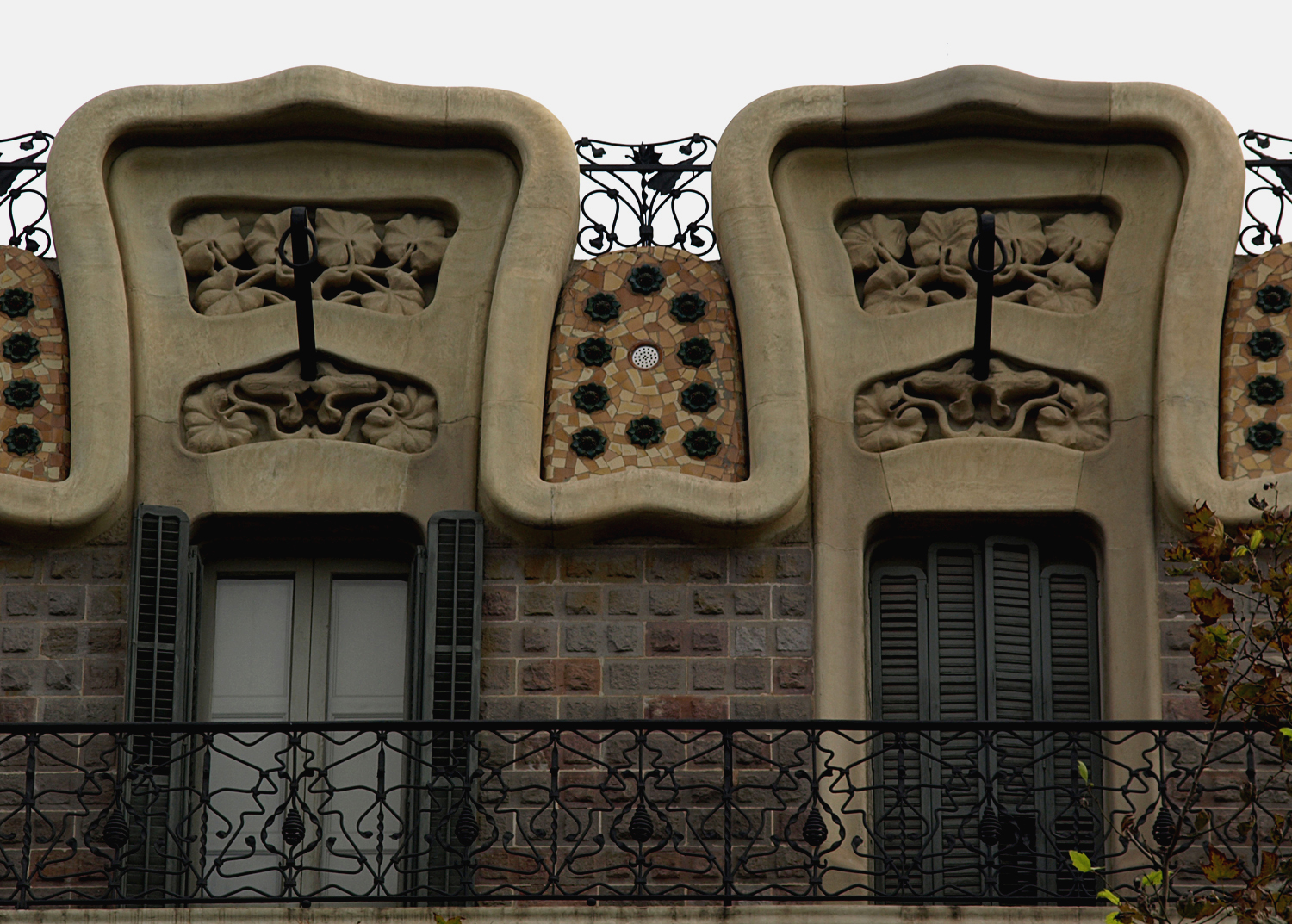 Casa Jeroni Granell - Catalan Modernisme (1902, Jeroni F. Granell)